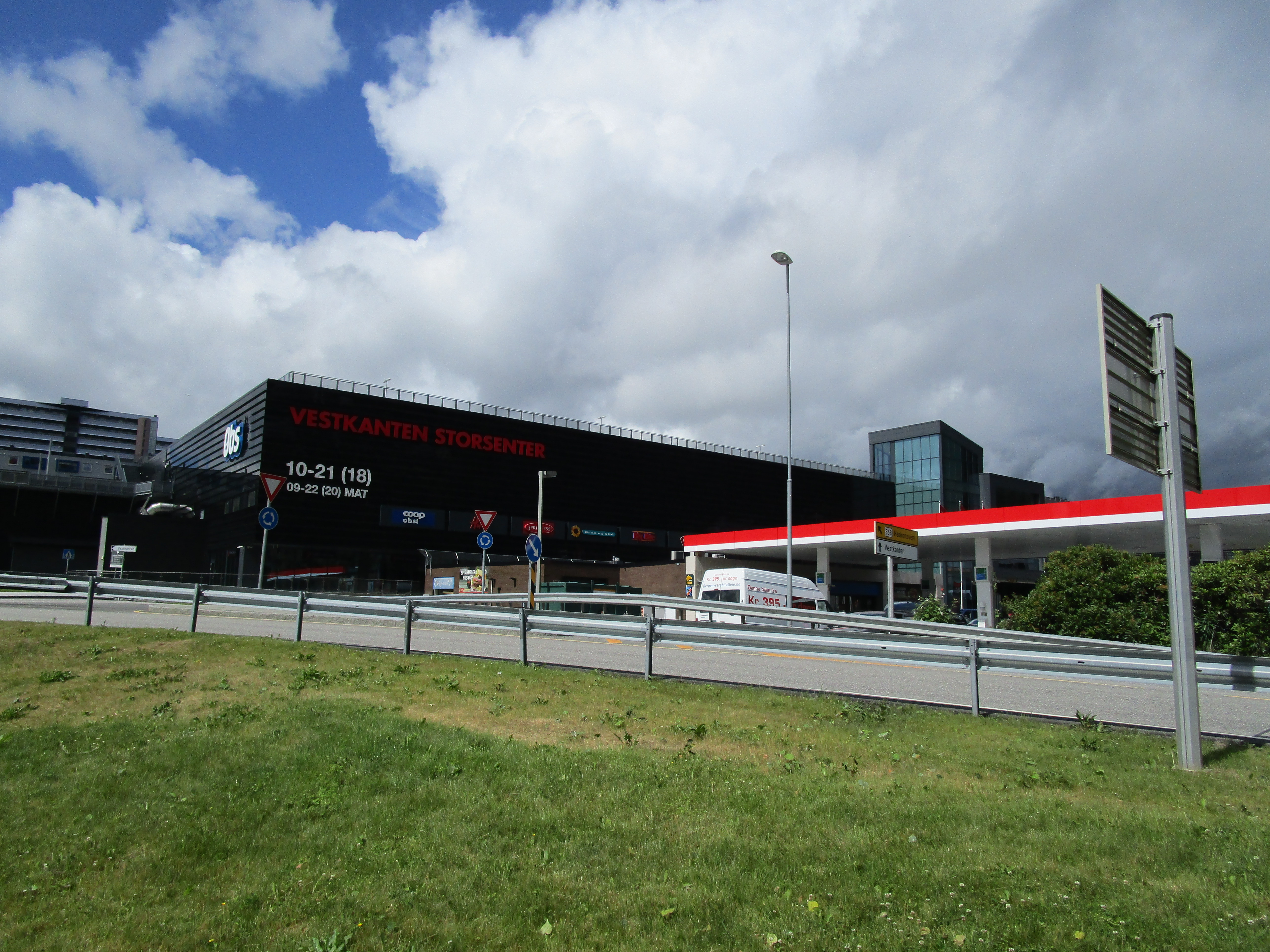 Vestkanten Storsenter, a shopping center near Bergen, Norway.